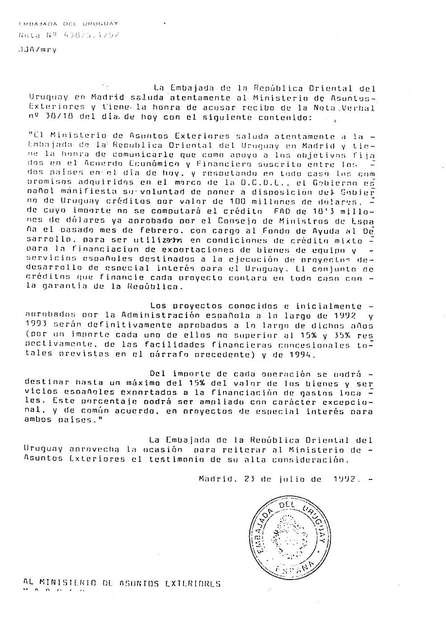 Documento Publico del Ministerio de Asuntos Exteriores y de Cooperación de España